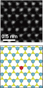 ADF-STEM image of Nb-doped monolayer WS2 (top) and structure model (bottom). Blue, red, and yellow spheres indicate W, Nb, S atoms, respectively.